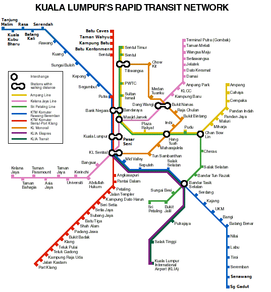 Kuala Lumpur Transit Map. Schematic of KL's urban and suburban rail and monorail lines, Kuala Lumpur Map of: Malaysia¤.